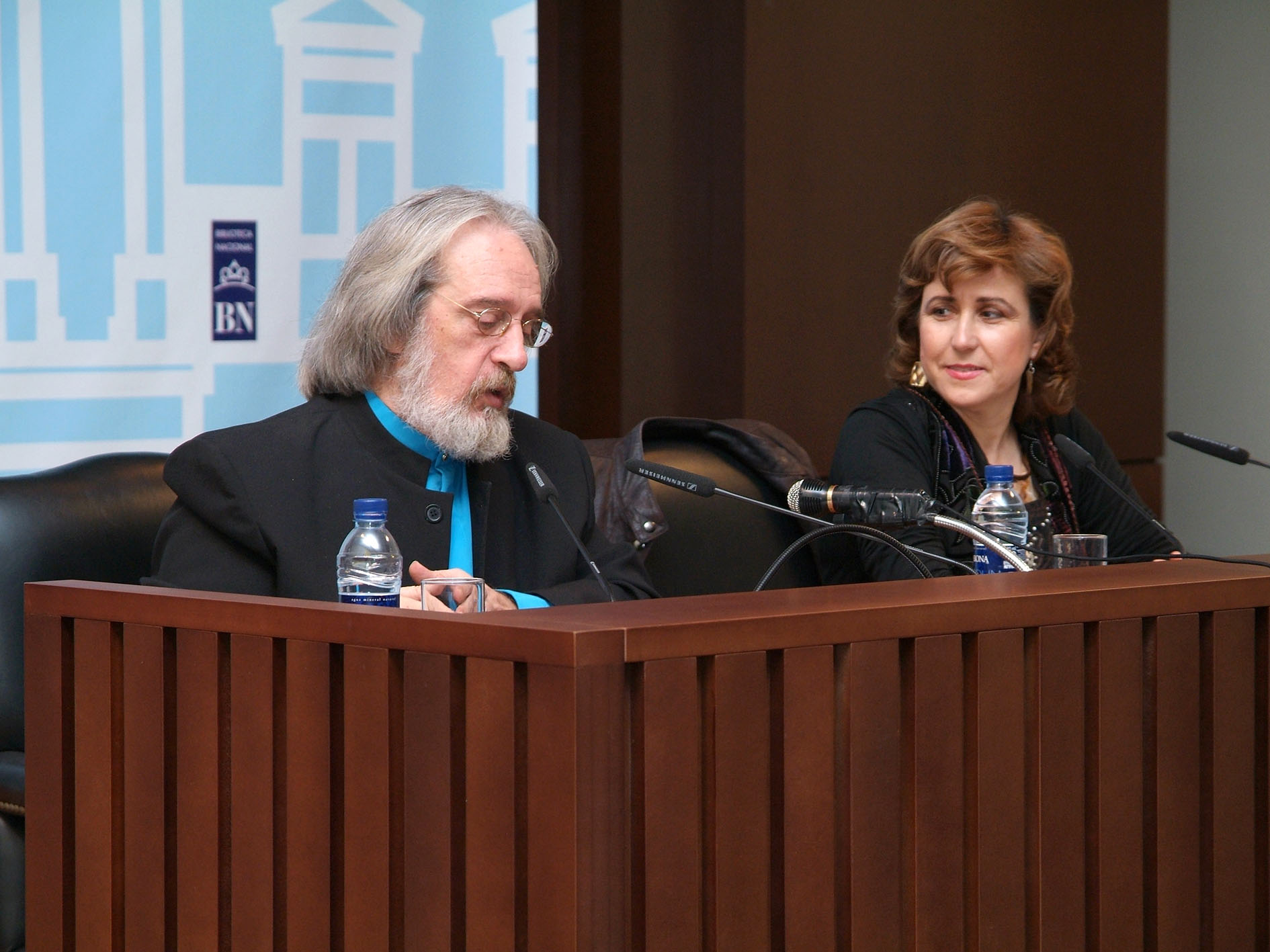 Enrique Gracia Trinidad and María Rosal. Biblioteca Nacional, "Poetas en vivo"